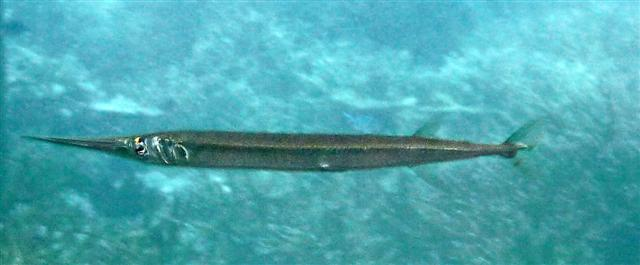 Hyporhamphus dussumieri Maldives, Mirihi, Jan. 2012